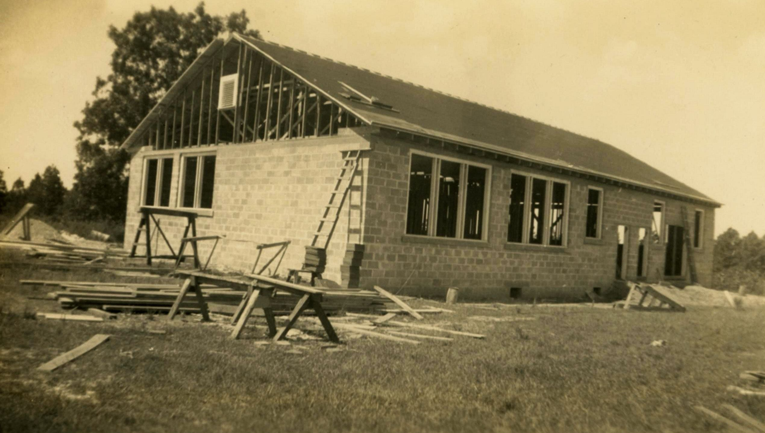 Collection: Work Projects Photograph Album, 1937-1939 Call number: Series 2018 System ID: 74305. Link to the catalog W.P. 5209, Application #924: Home School Vocational Building, Stone County. Concrete blocks made on Project. NYA. I-A9-66. Please see our profile page for information on ordering. Scanned as TIFF in 2010/09/23 by MDAH. Credit: Courtesy of the Mississippi Department of Archives and History